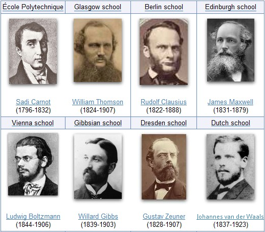 Pictures of the eight original founding schools of thermodynamics. Photos all pre-1880s. Original